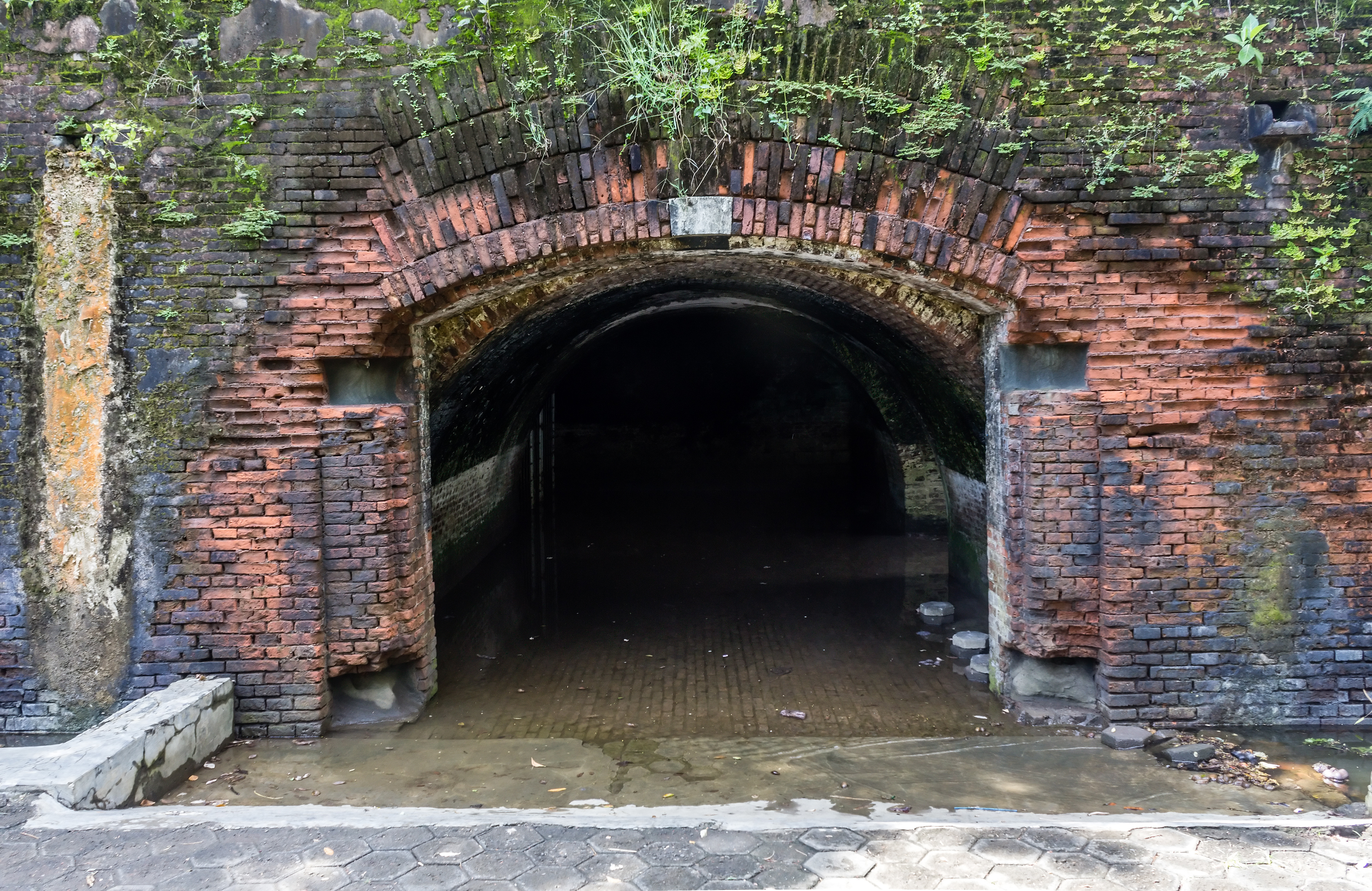 Tunnel entrance, Benteng Pendem, Cilacap 2015-03-21